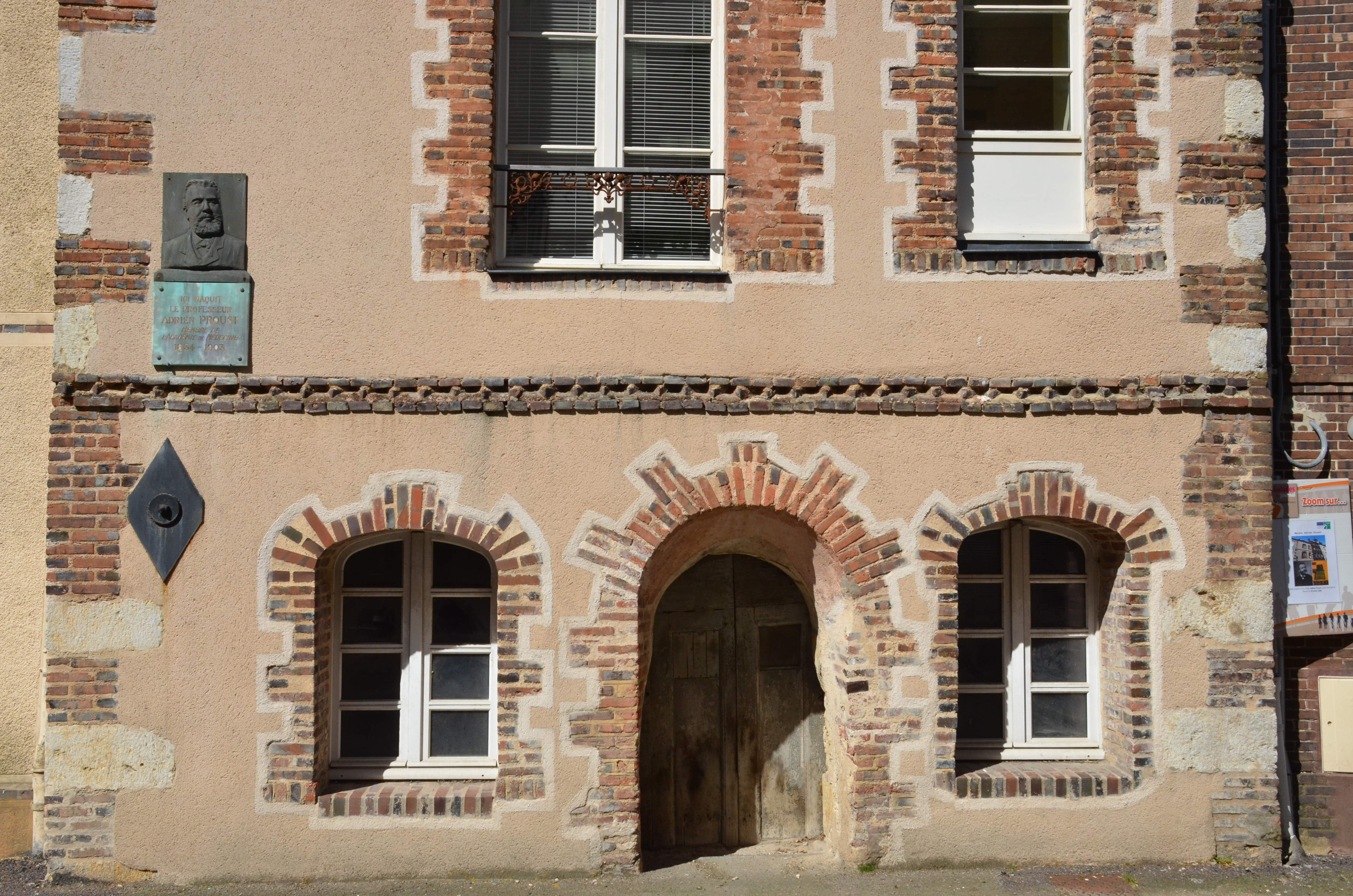 Birthplace of Adrien Proust to Illiers-Combray